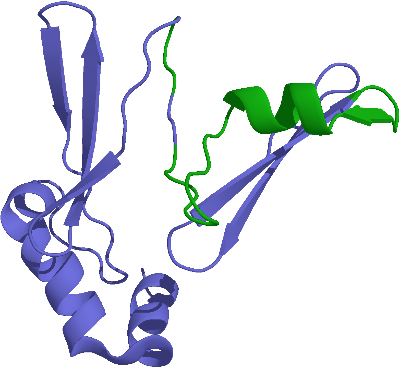 theoretical 3d structure of preproghrelin (ghrelin part highlighted) from PDB 1P7X. Ref.: v.umashankar abinitio structure of human ghrelin precursor. TO BE PUBLISHED, .